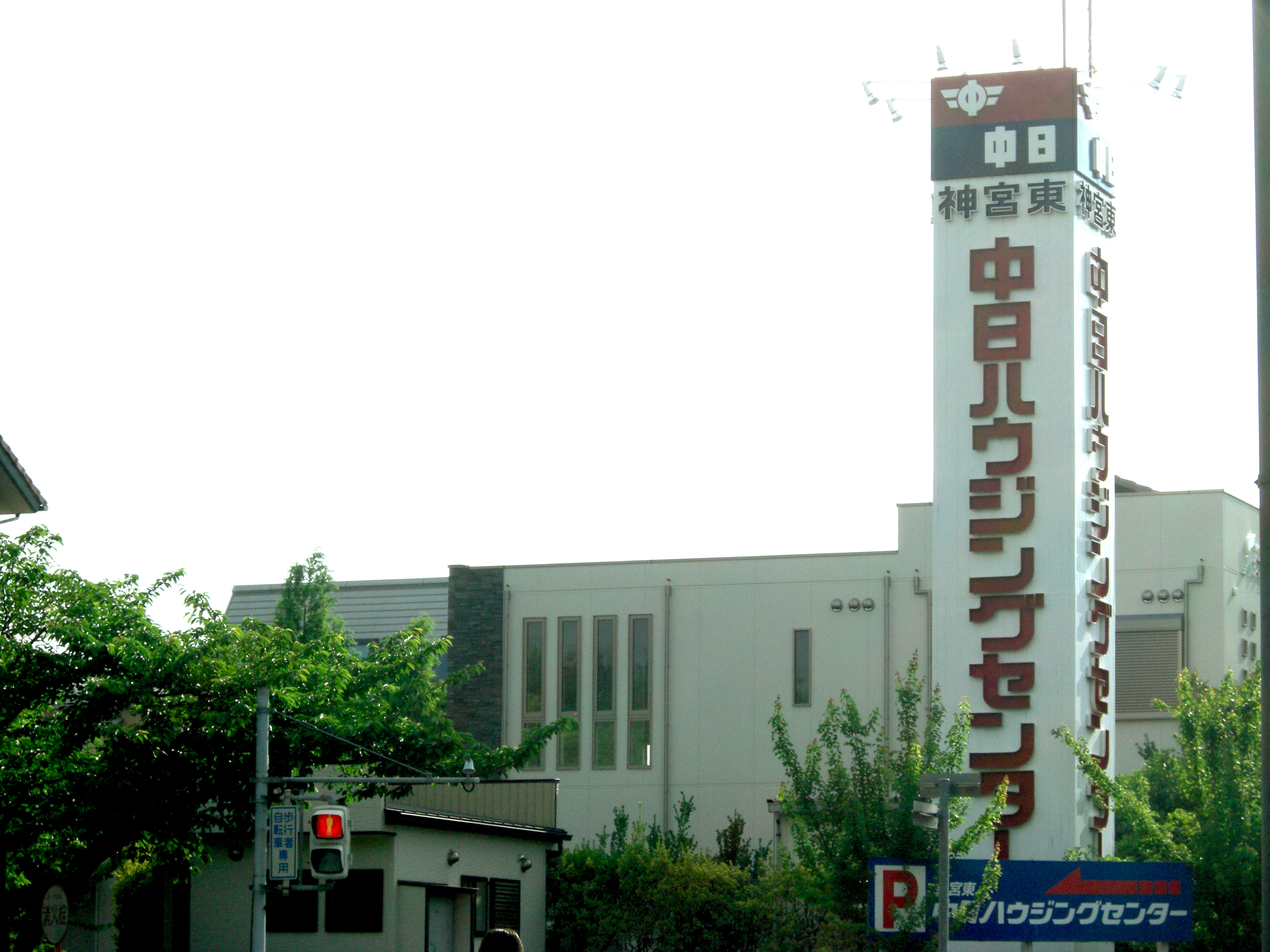 Jinguhigashi Chunishi Housing Center, Sanbonmatsucho Atsuta-ku Nagoya-City Aichi Japan. This seems to be an exhibition run by the newspaper company Chunichi Shimbun.